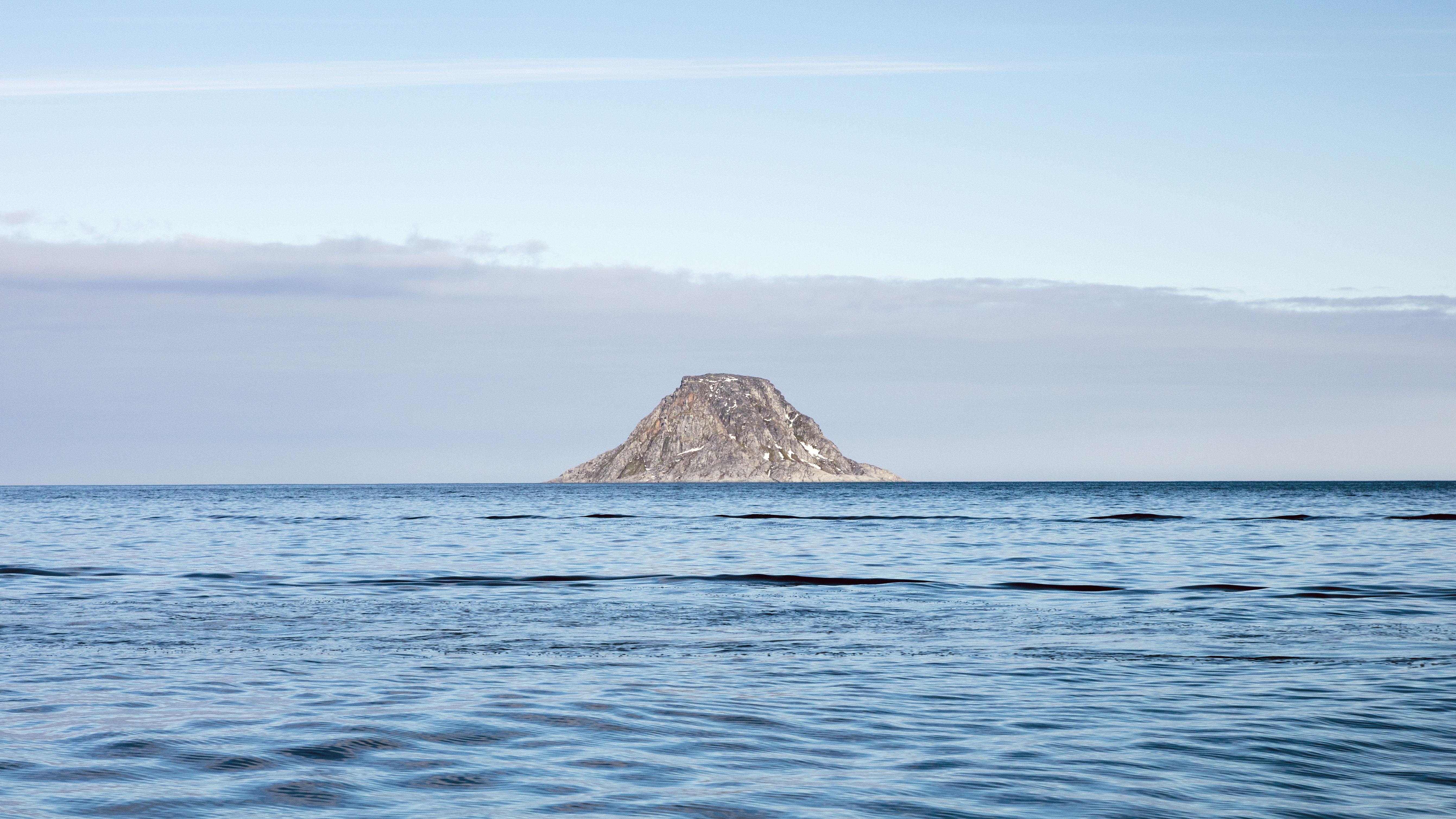 View of Tavleøya from Phippsøya, one of the Sjuøyane islands in the most northern part of Svalbard